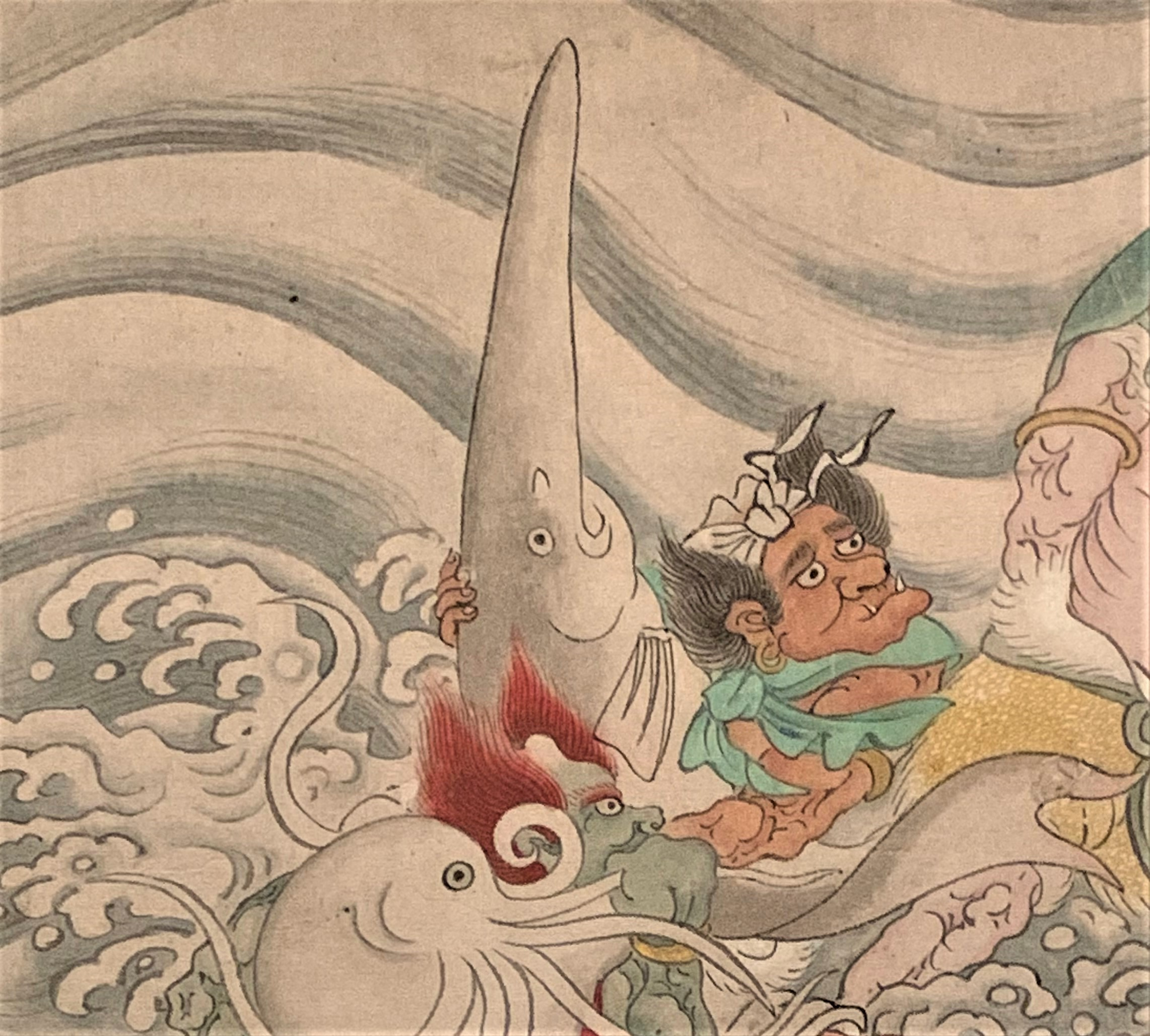 Depiction of Psephurus gladius in Searching the Mountains for Demons, a 17th-century scroll.